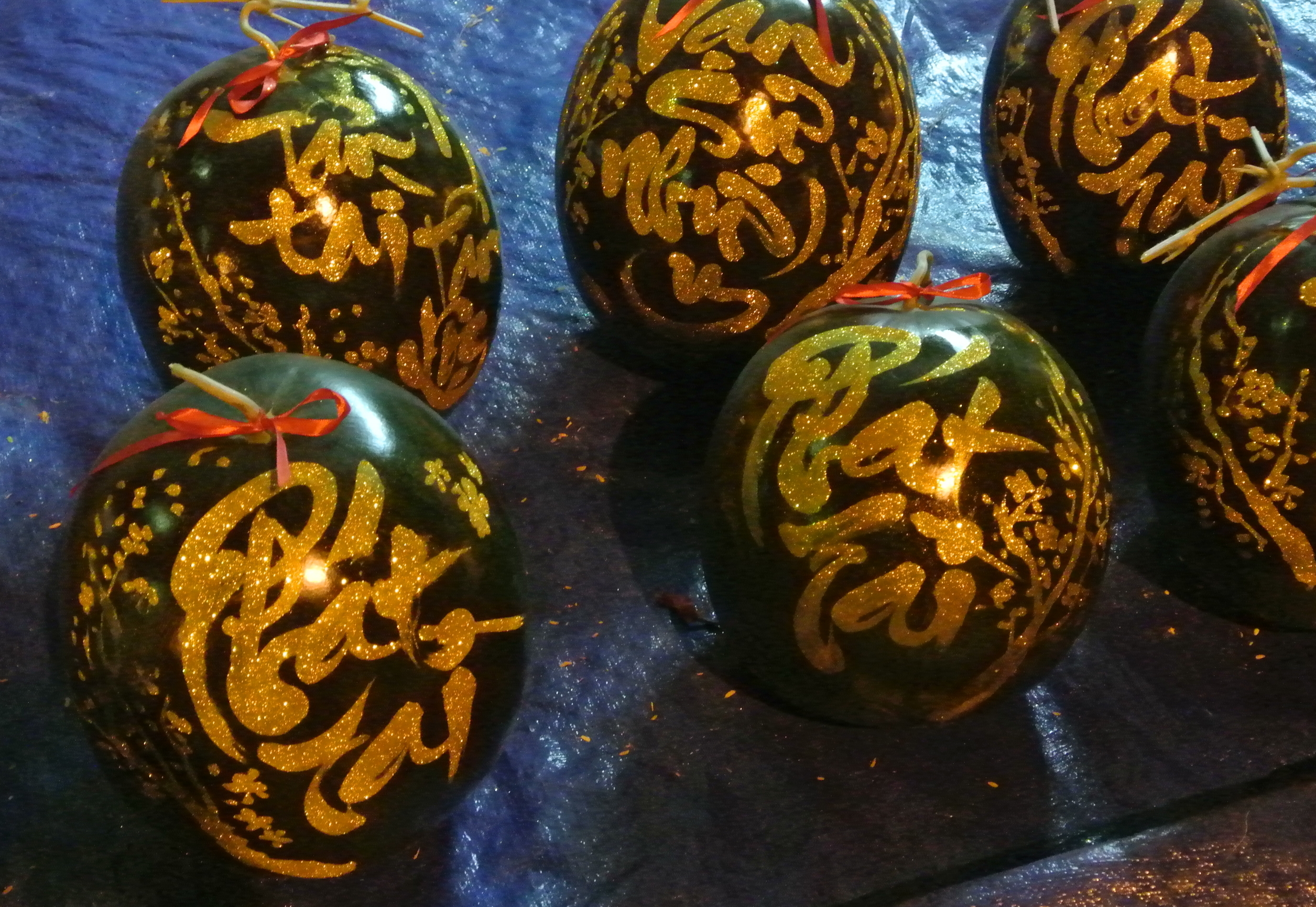 Watermerons for Vietnamese new year celebration. written happy word like "phát tài" (Get rich).